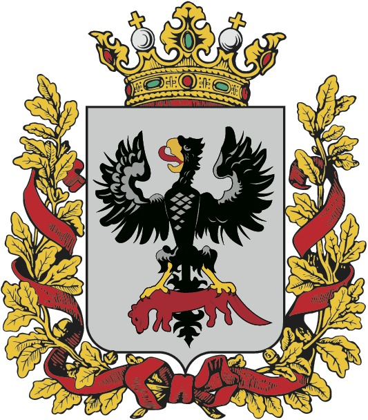 Yuakutsk oblast (Russian empire), coat of arms